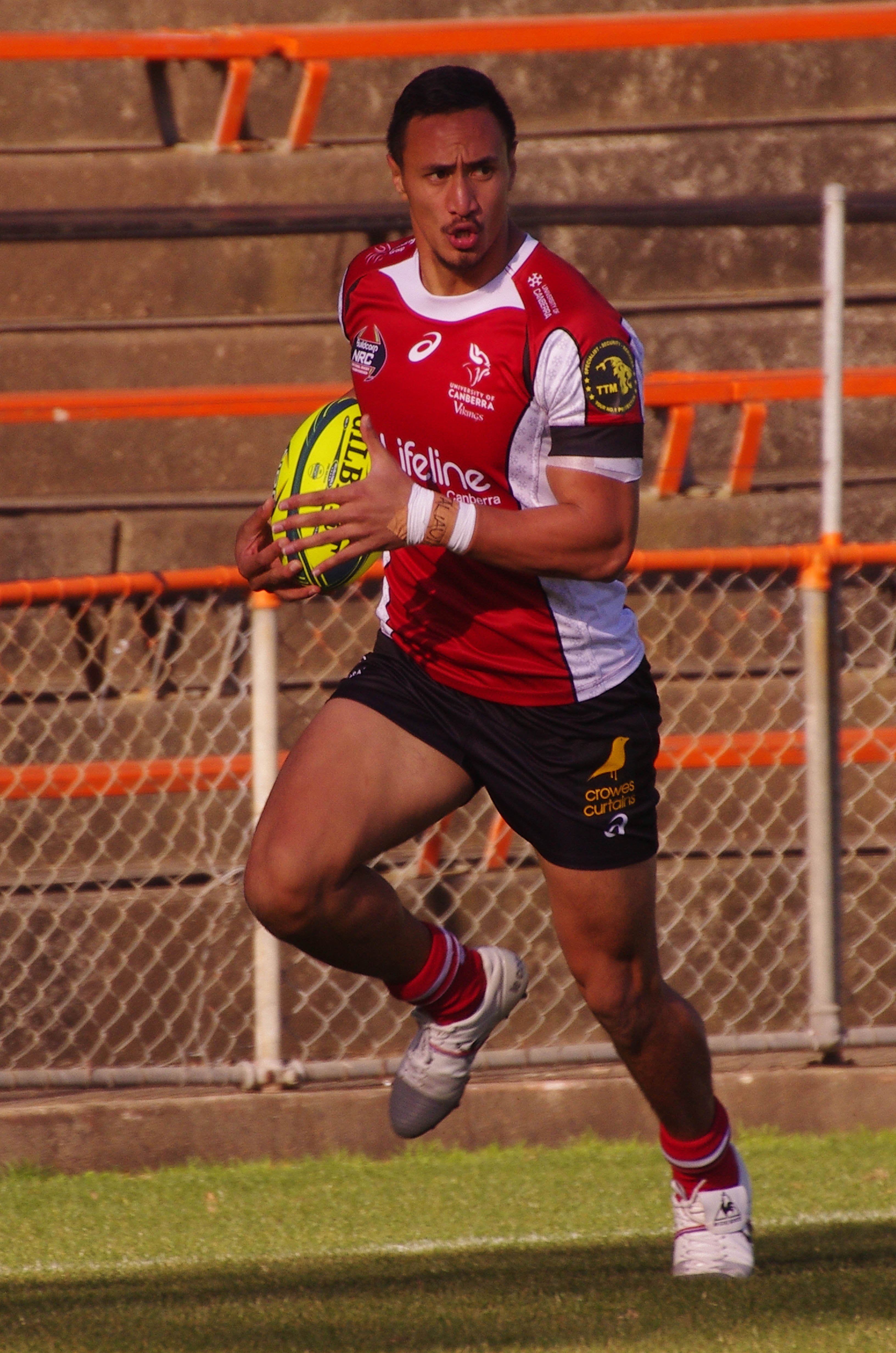 New Zealand-Australian rugby union player Lausii Taliauli.